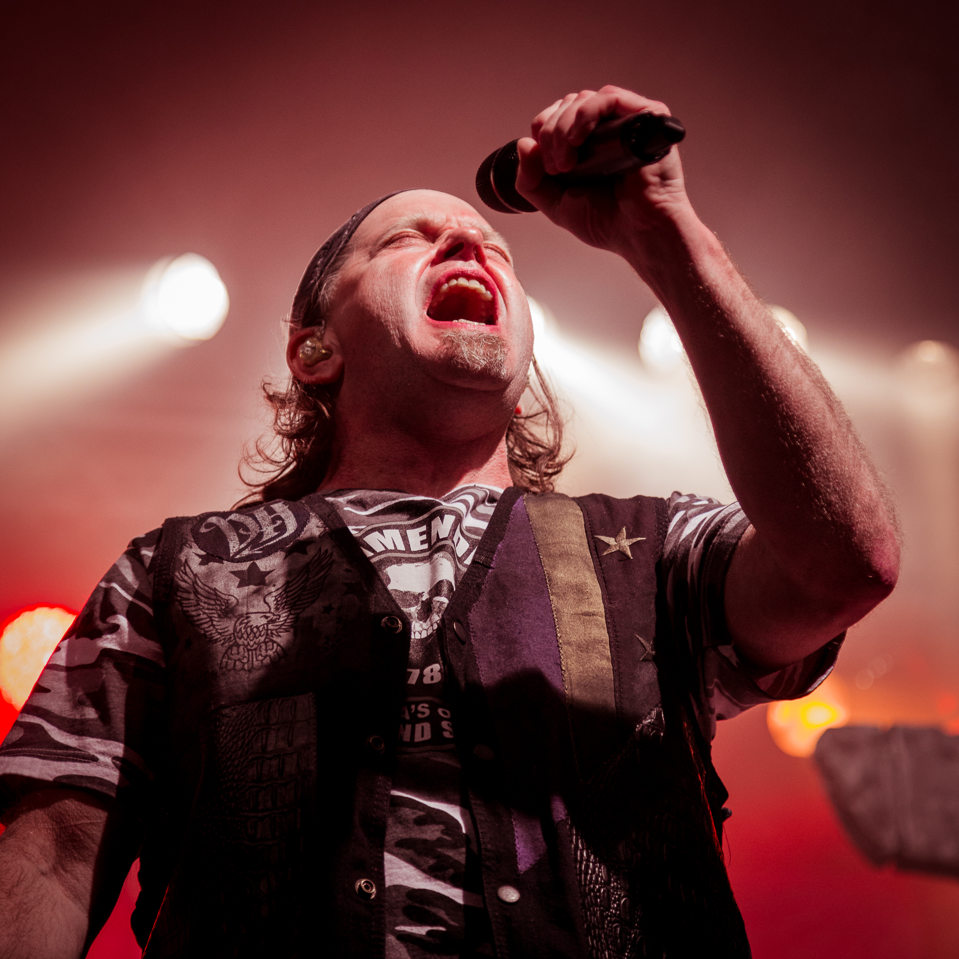 John Arch, original Fates Warning vocalist during the Keep It True Festival (Awaken The Guardian album 30th Anniversary Show) in Lauda-Königshofen, Germany (2016.04.30)